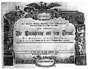 Wolfgang Amadeus Mozart's opera Die Entführung aus dem Serail (The Abduction from the seraglio), Vienna theatre announcement of premiere on 16 July 1782 at the Burgtheater.